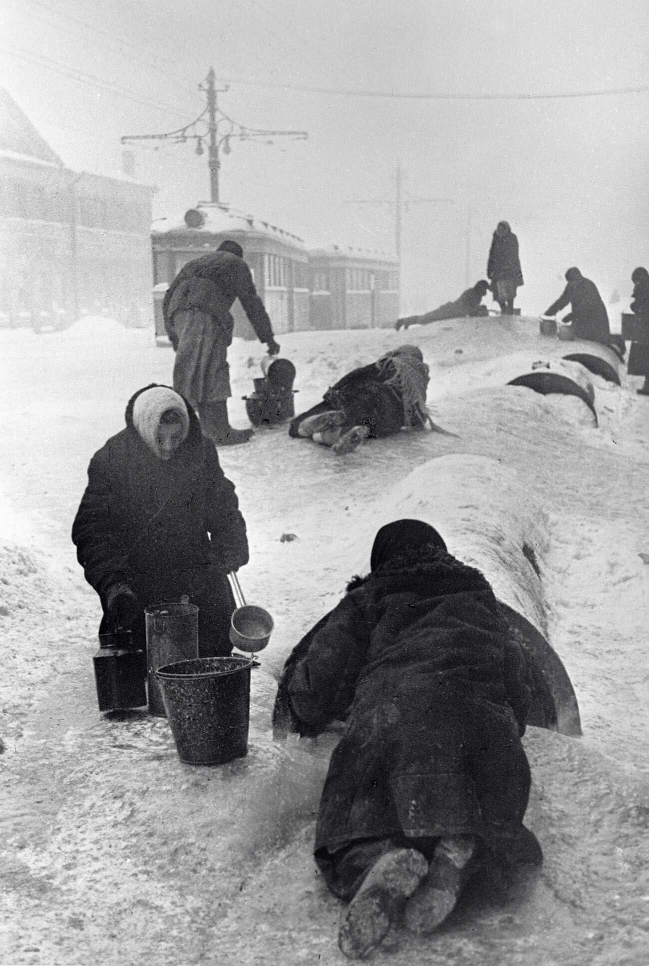 “Leningradians taking water”. Leningradians taking water from a broken water-pipe.